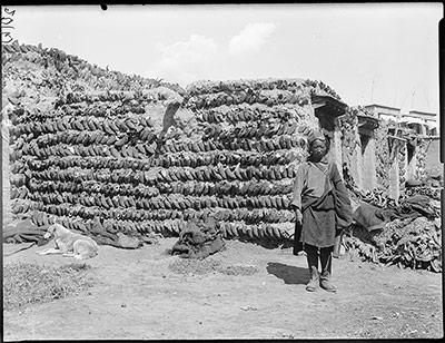 Ragyapa houses in Lhasa, made from the horns of yaks, ordinary cattle, sheep and other animals